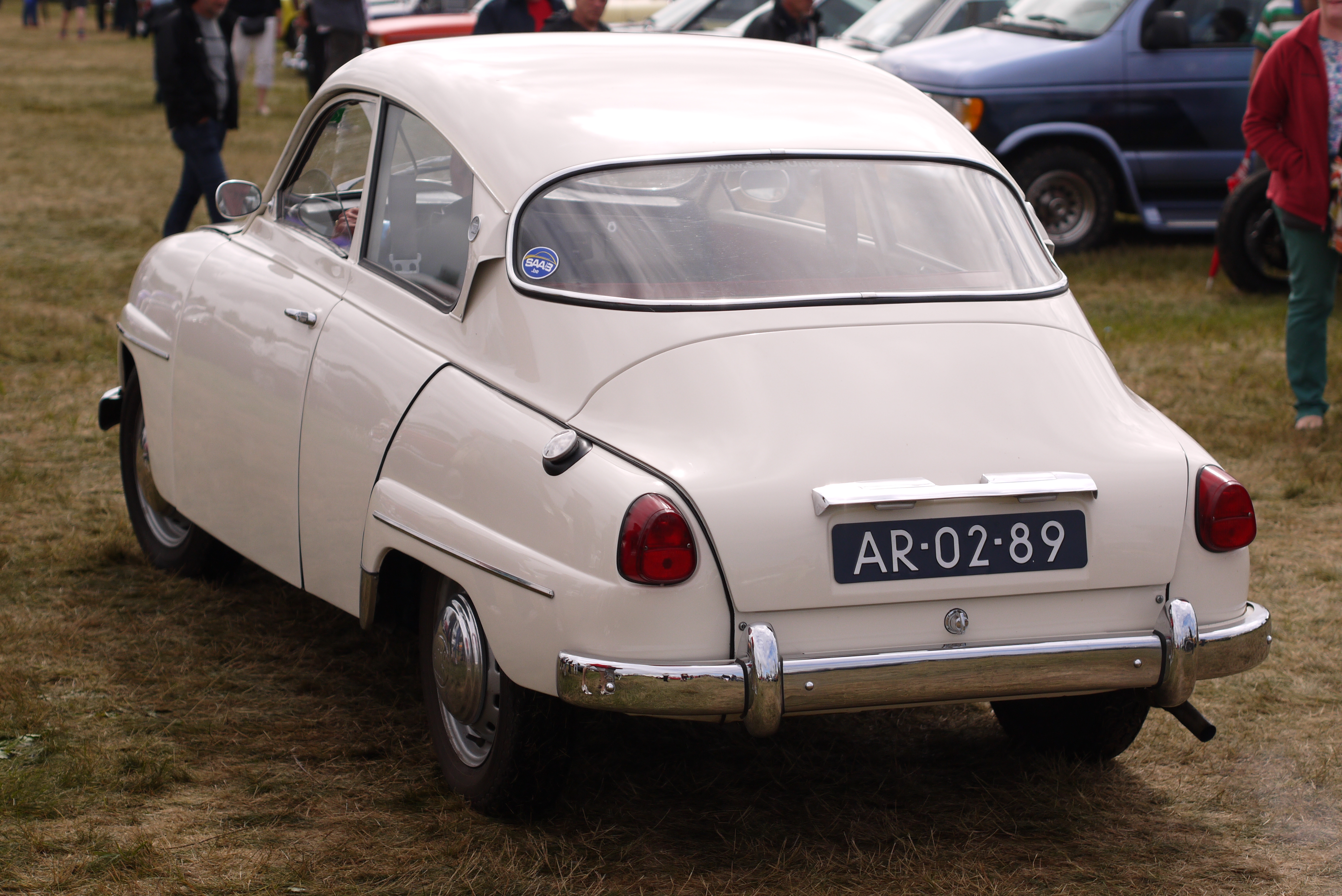 Saab 96 rear three quarters, Schaffen Diest Fly-Drive 2013